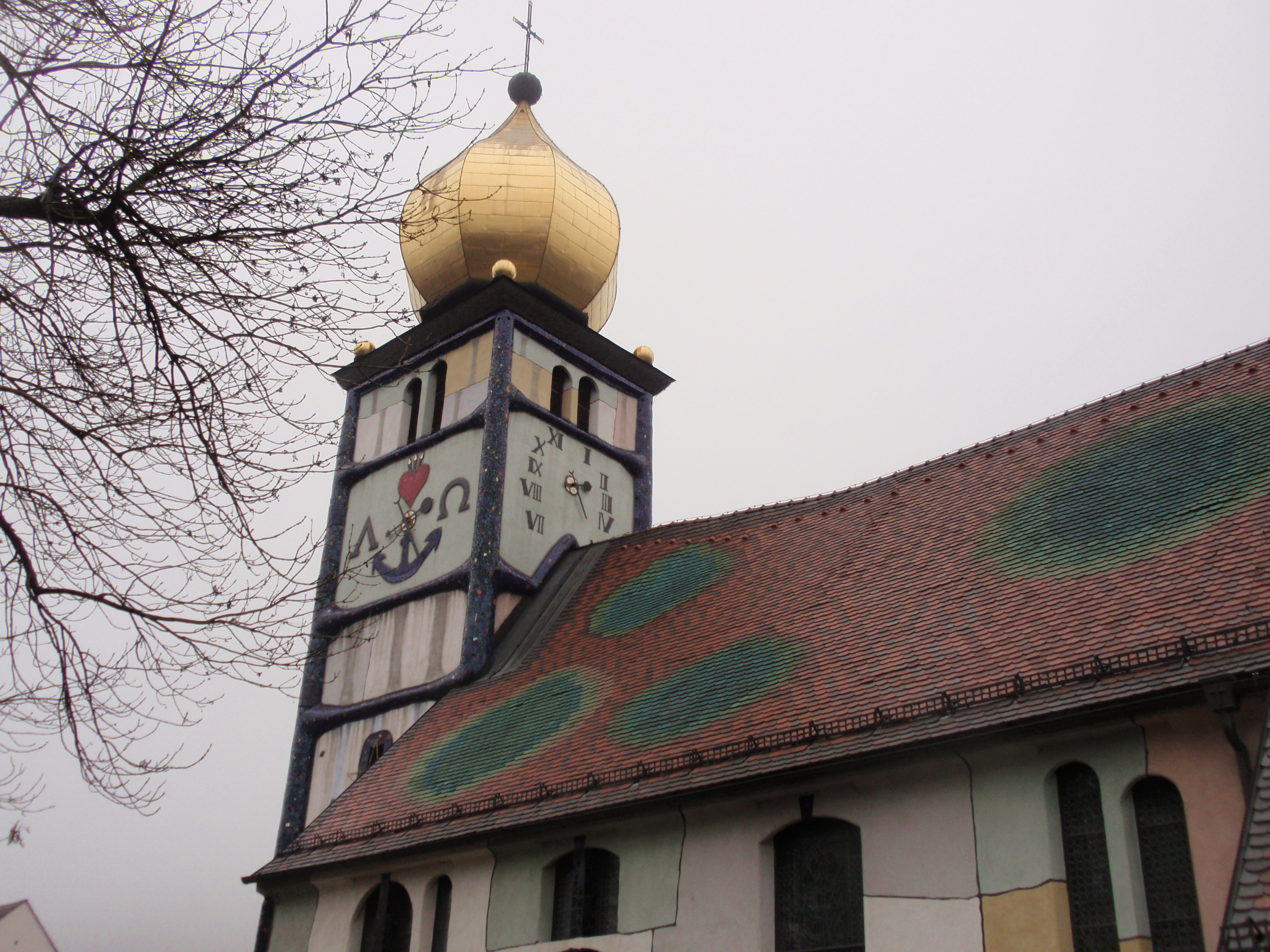 St. Barbara Church in Barnbach